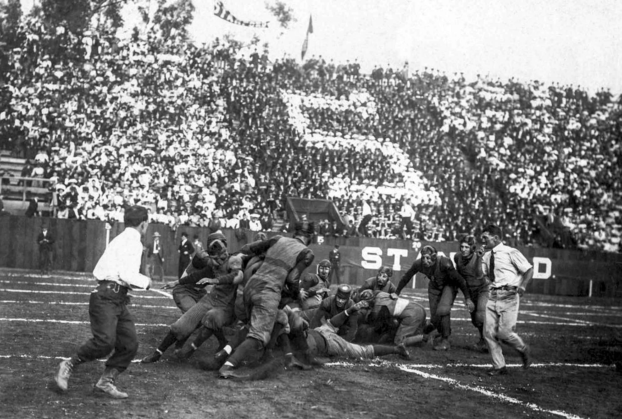 The Big Game, American football final.